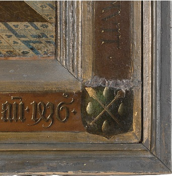 Detail of the frame from the Virgin and Child with Canon van der Paele